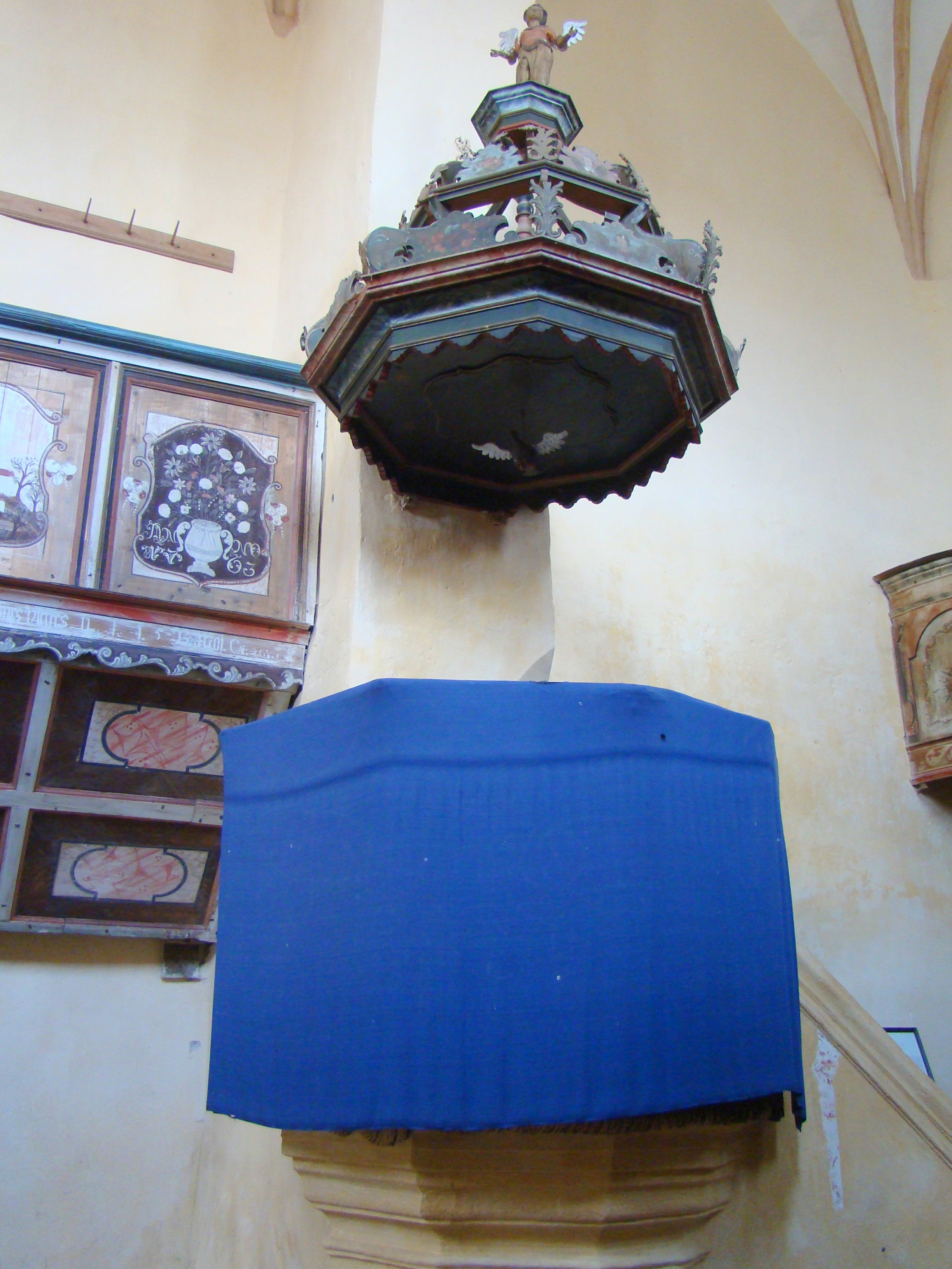 Lutheran church in Cloașterf, Mureș county, Romania